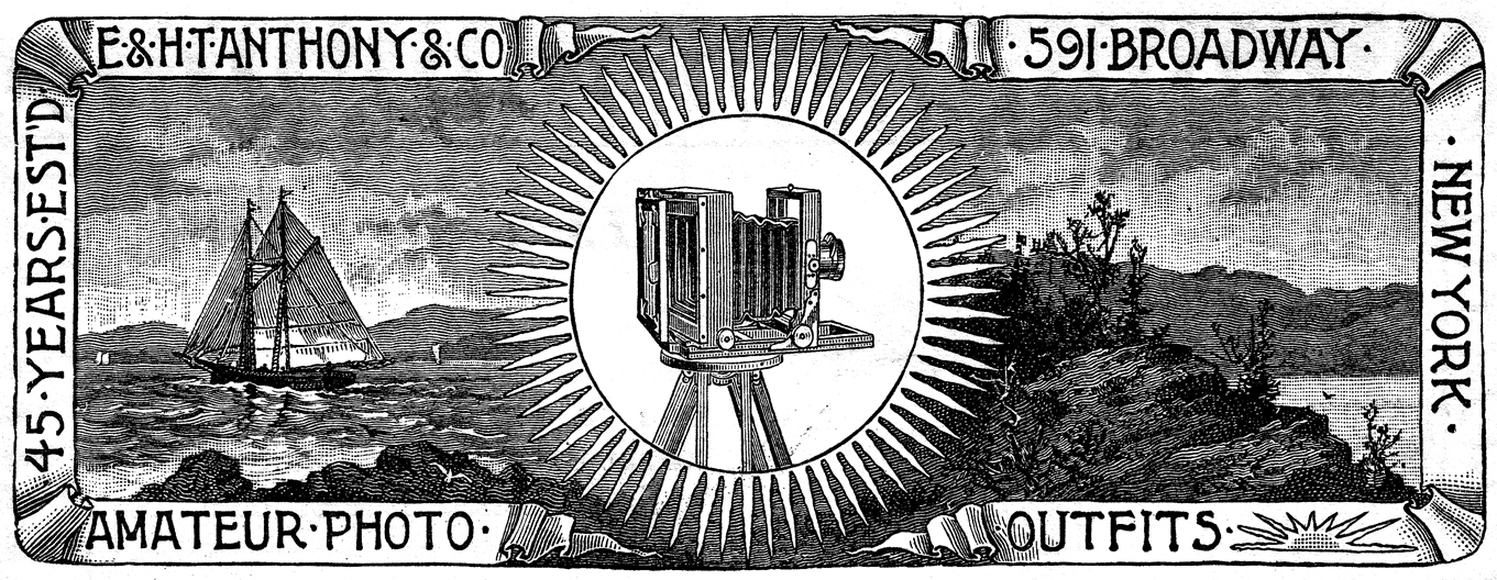 Advertisement for E. & H.T. Anthony & Company, 591 Broadway, New York, NY. Amateur Photo Outfits